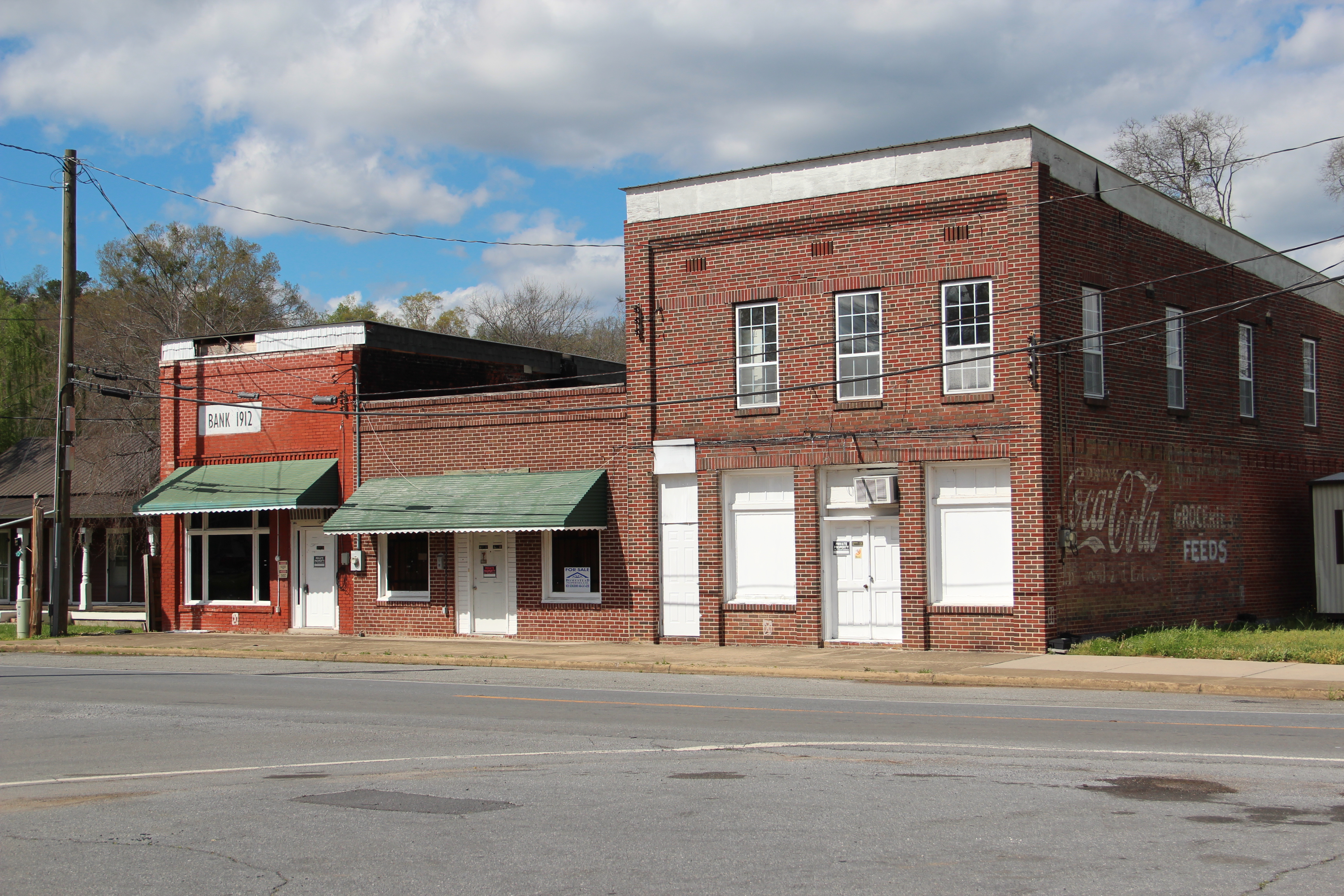 Plainville, Georgia stores